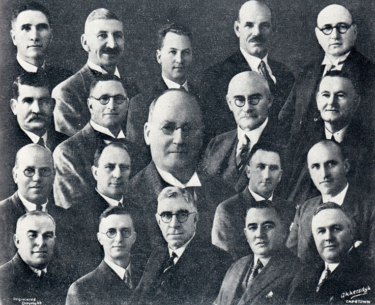 In 1935, a hardline faction of Afrikaner nationalists, led by Daniel François Malan, strongly opposed the merger between Hertzog's National Party and the rival South African Party. Malan and 18 other MPs defected to form the 'Purified' National Party.